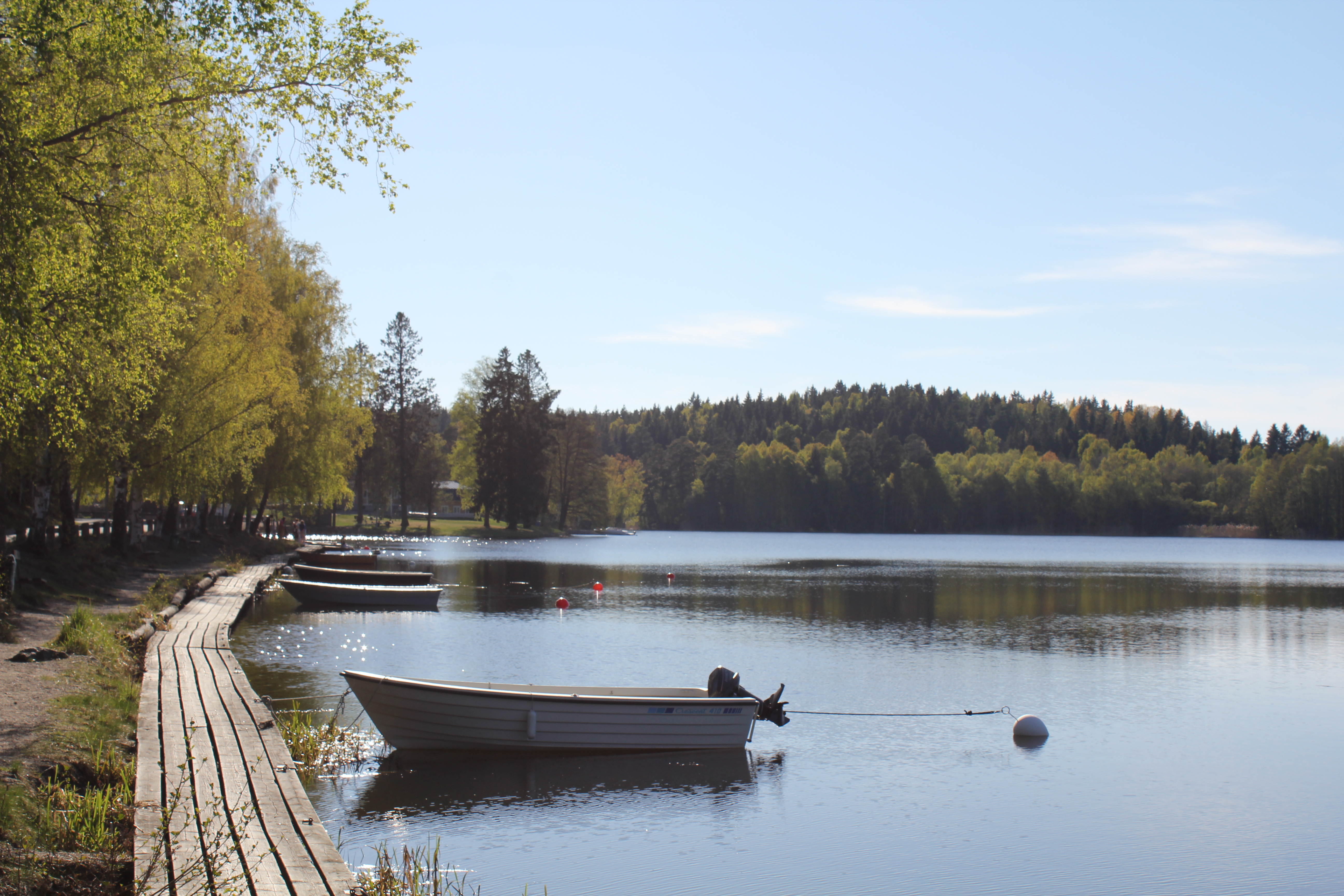 Lake Uttran (Utterkalven) in Botkyrka municipality south of Stockholm, Sweden.